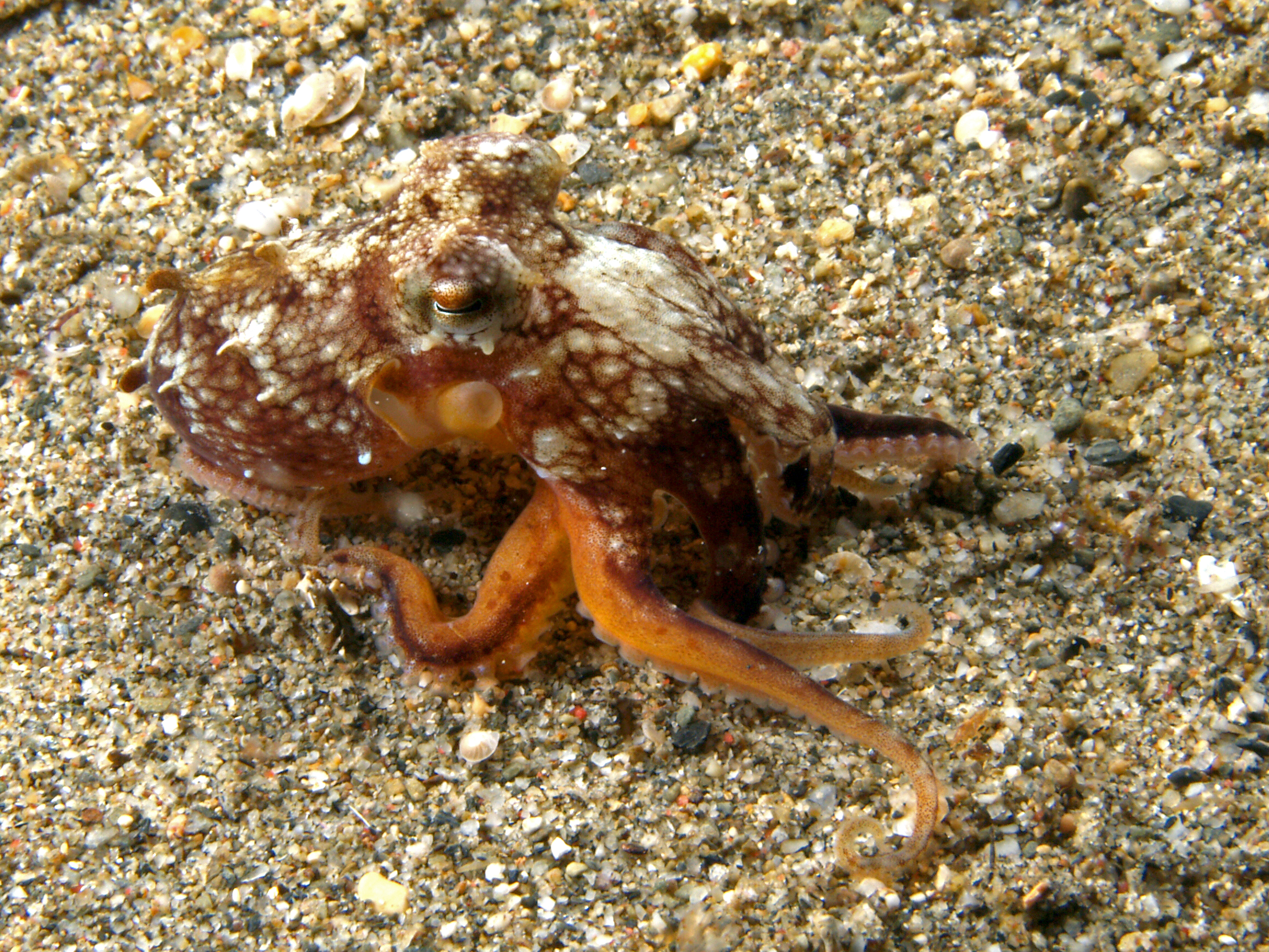 Octopus marginatus (Coconut octopus)